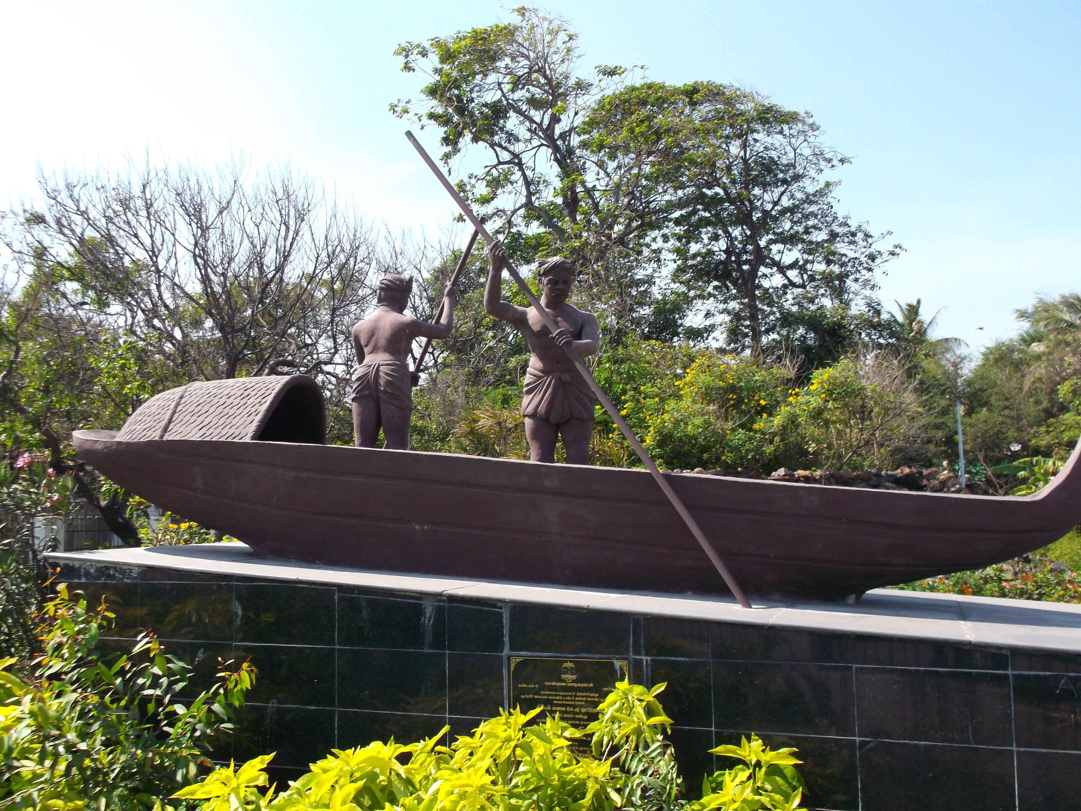 Marina Beach, Fishermen statue, taken on 2-Feb-2013 afternoon